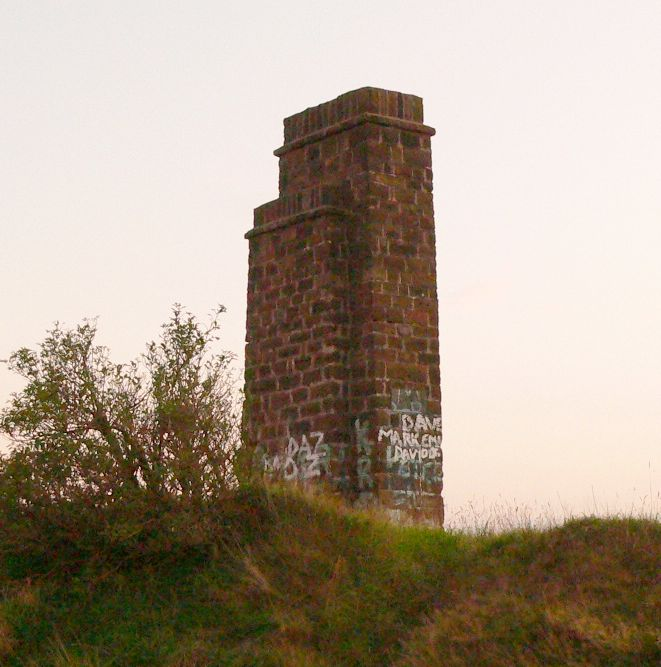 A view of the monument at Eston Nab.